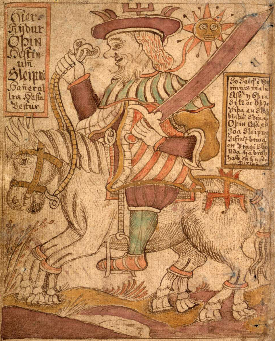 An illustration of the god Odin on his eight-legged horse Sleipnir, from an Icelandic 18th century manuscript.